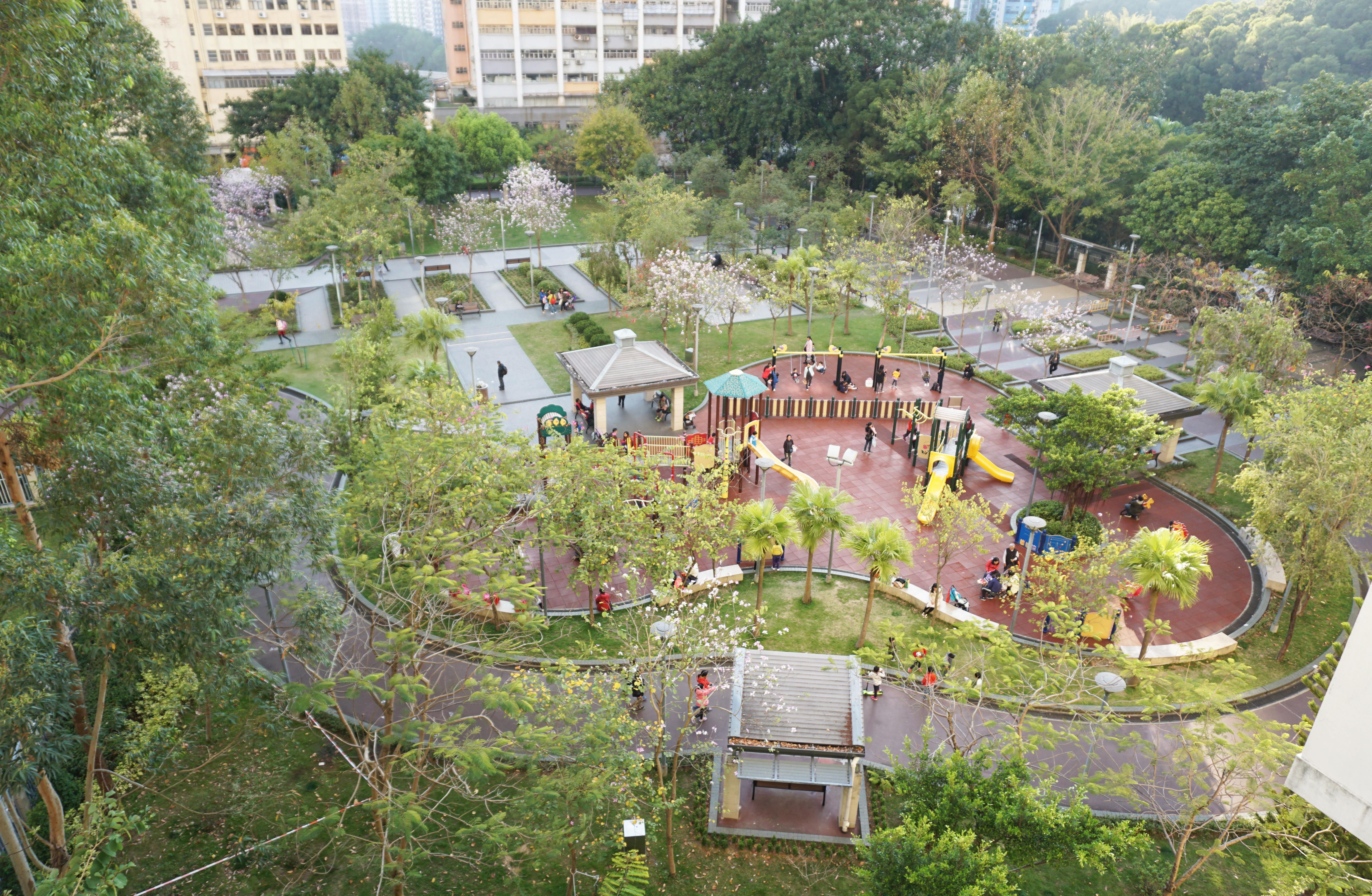 Lei Muk Road Park in Shek Yam, Hong Kong.